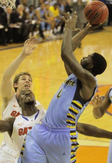 Jamil Wilson shoots